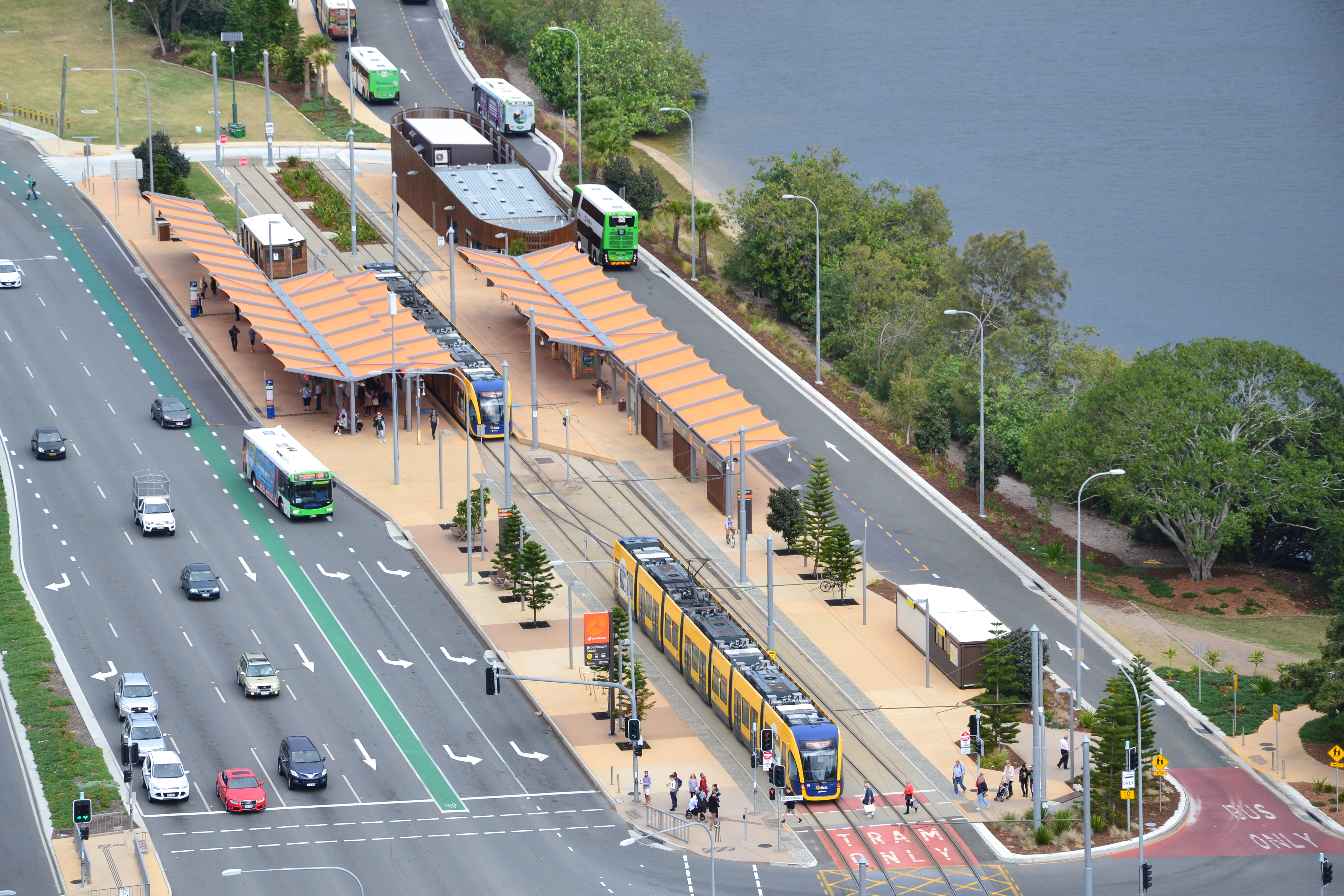 Buses and trams at Broadbeach South transport interchange. This is the southern terminus of the light rail line.